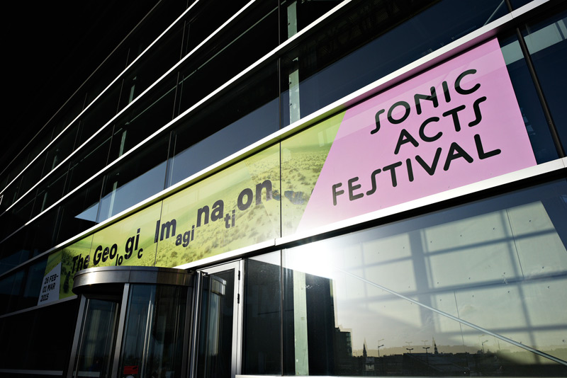 Sonic Acts Festival 2015 at Muziekgebouw aan 't IJ